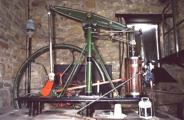 Beam engine, Shildon This is attributed to Timothy Hackworth and is on display in his Soho Works at Shildon, now an outpost of the National Railway Museum. This engine was once displayed at York and had disappeared from sight before turning up here.